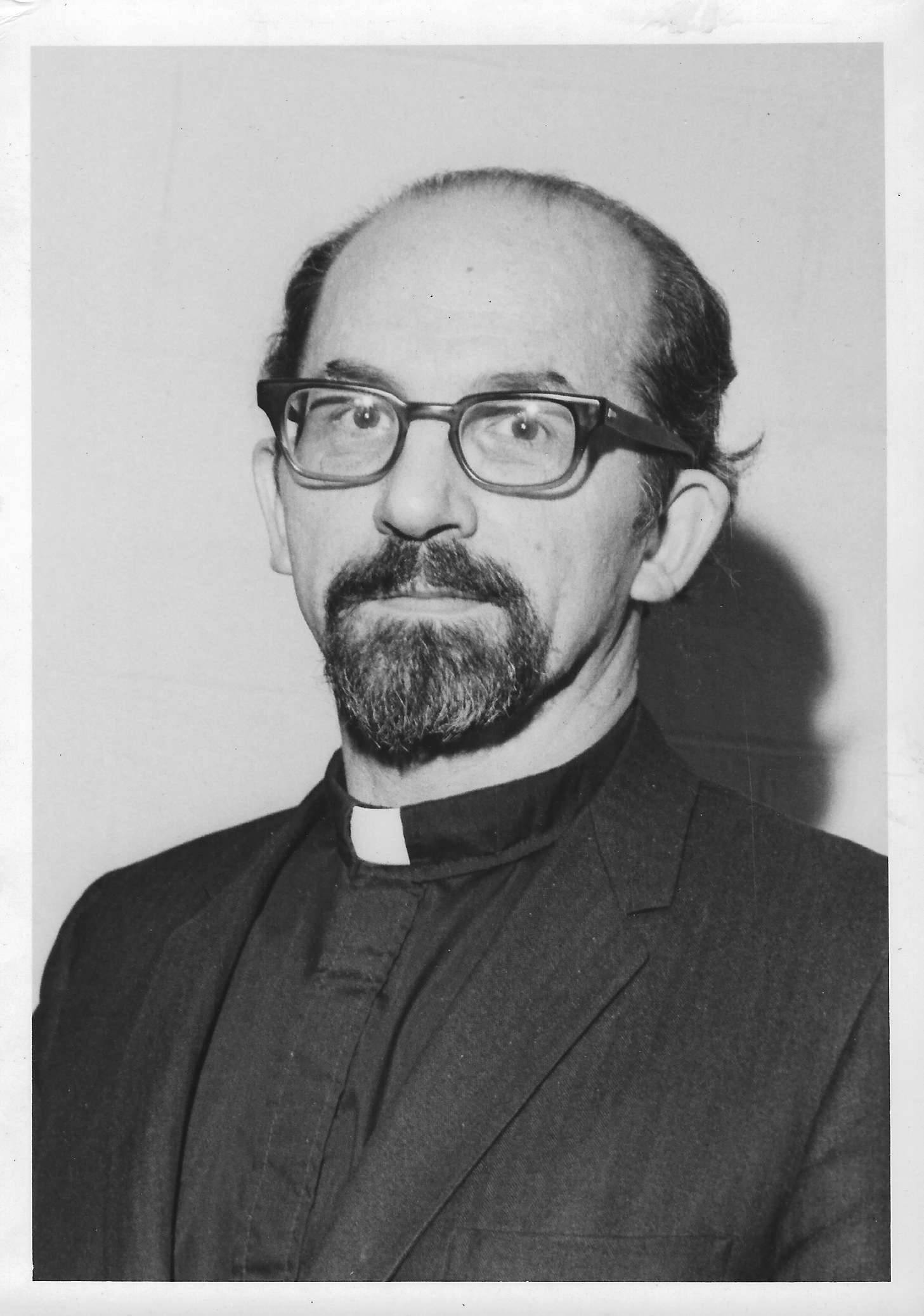 portrait